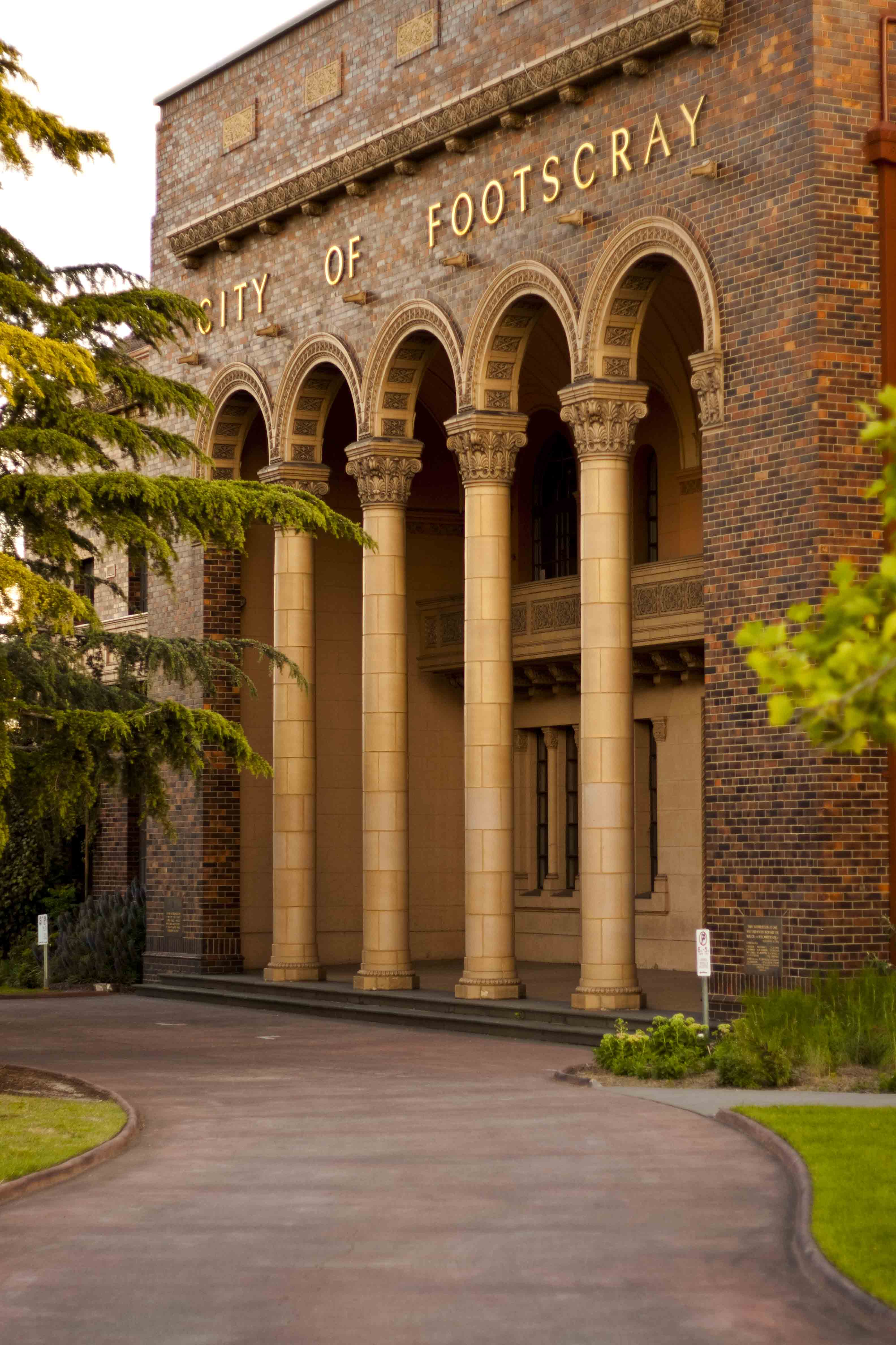 Footscray Town Hall — in Footscray, Melbourne, Victoria. Romanesque Revival Style architecture in Australia.